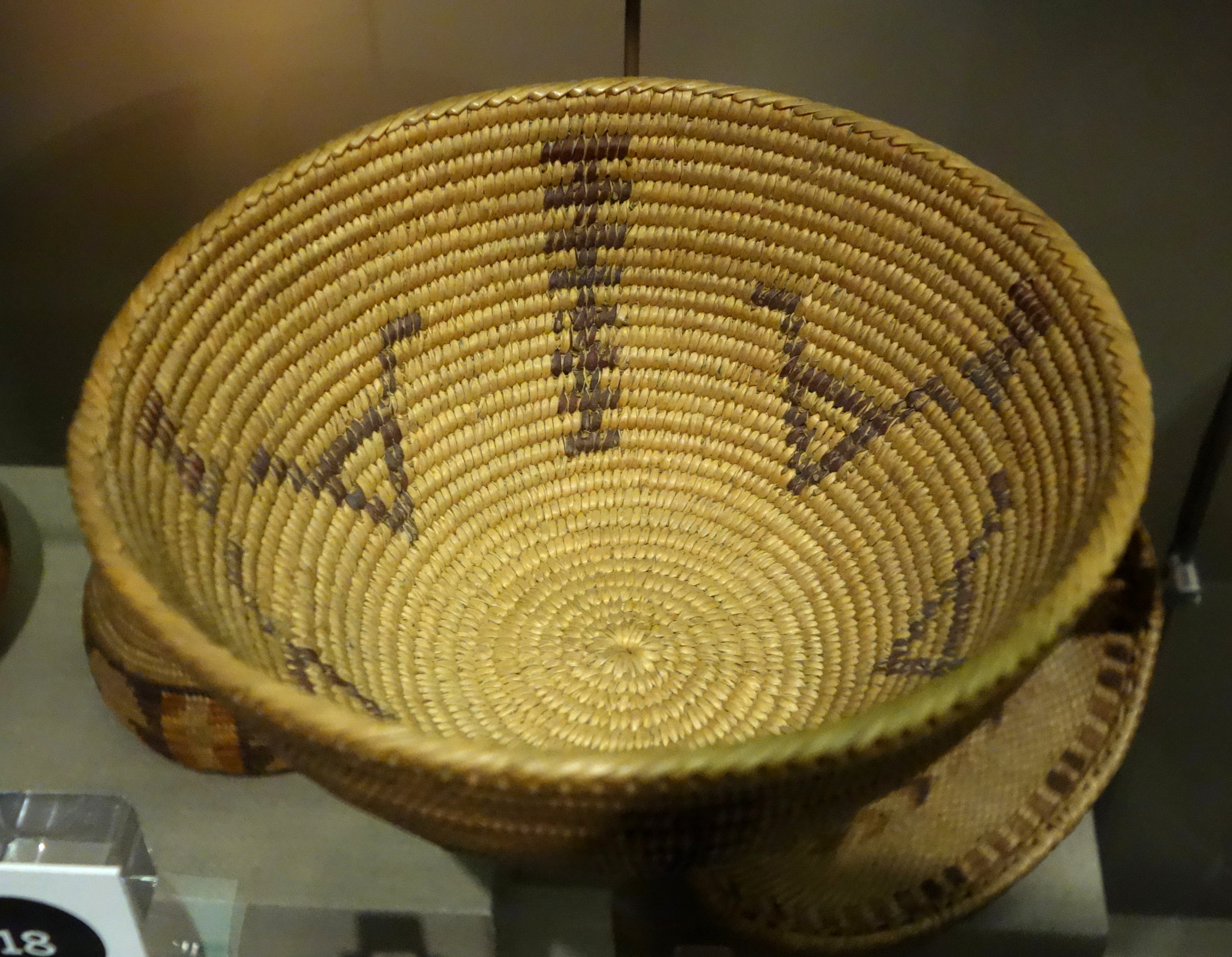 Exhibit in the Oakland Museum of California, Oakland, California, USA. This work is in the public domain because its maker died more than 70 years ago.